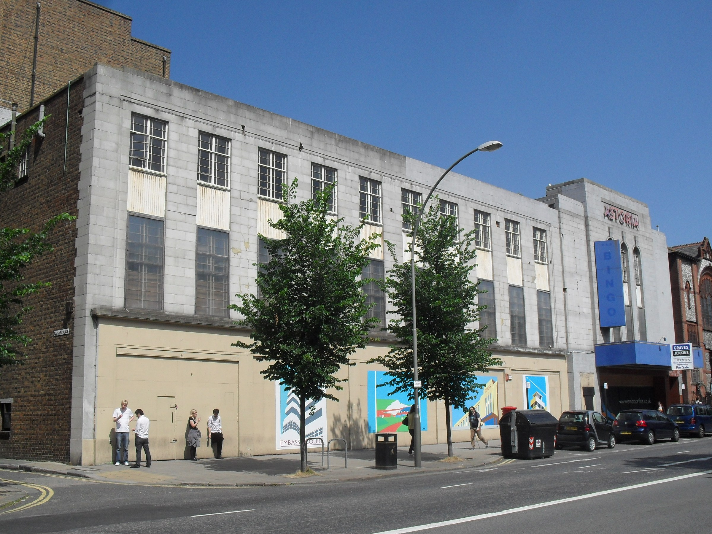 The former Astoria Cinema, Gloucester Place, Brighton, City of Brighton and Hove, England. Built in 1933 as an 1,800-capacity "super-cinema" by Edward Stone, it became a bingo hall in 1977 and closed down in 1997. As of 2010, it is still empty. Listed at Grade II by English Heritage (IoE Code 486887)